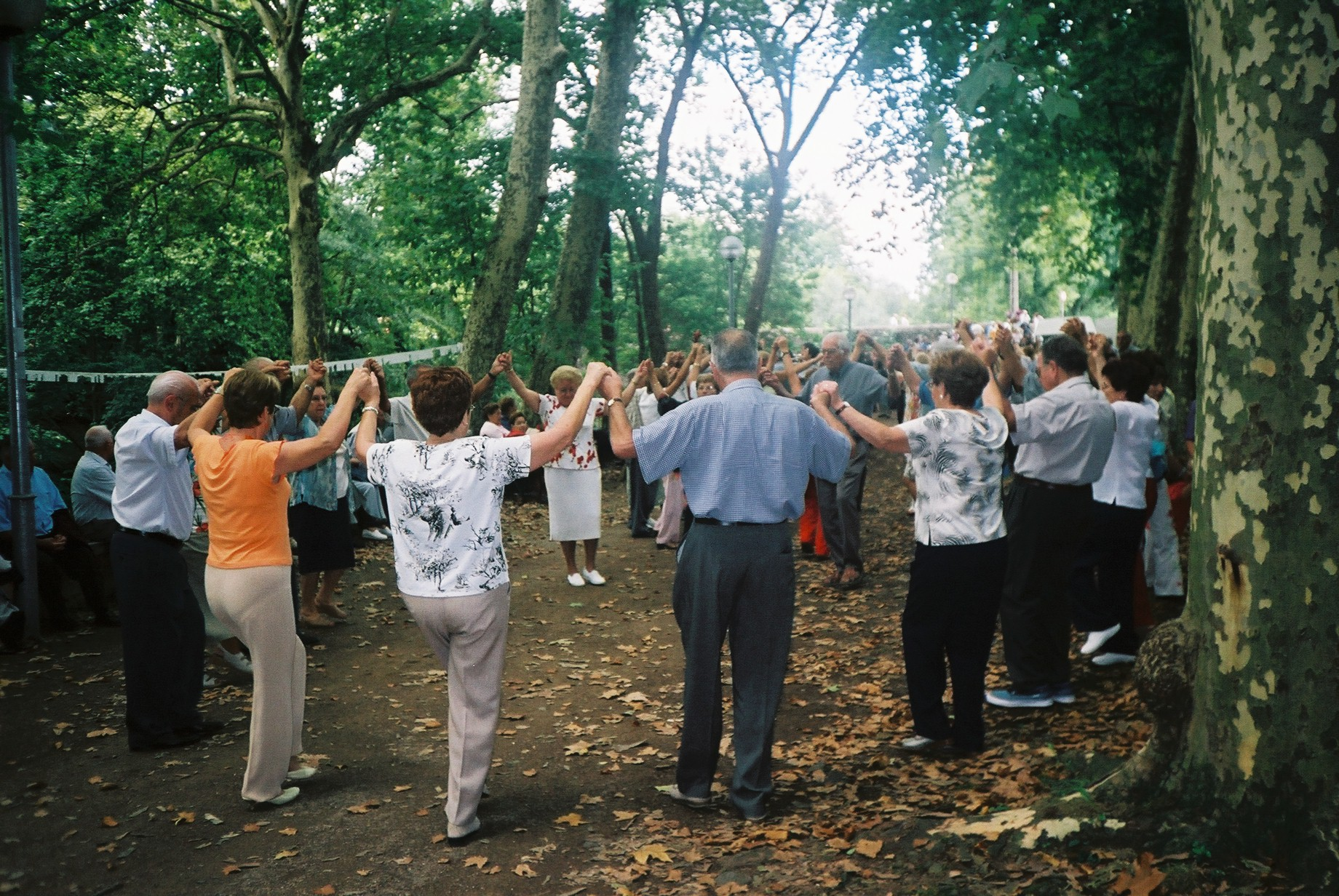 Author: Wamito Object: Sardana Festivities Olot/Catalunya/Spain on 11.09.2005 (Holiday of Olot and National holiday of Catalunya) Place: Les fonts de San Roc